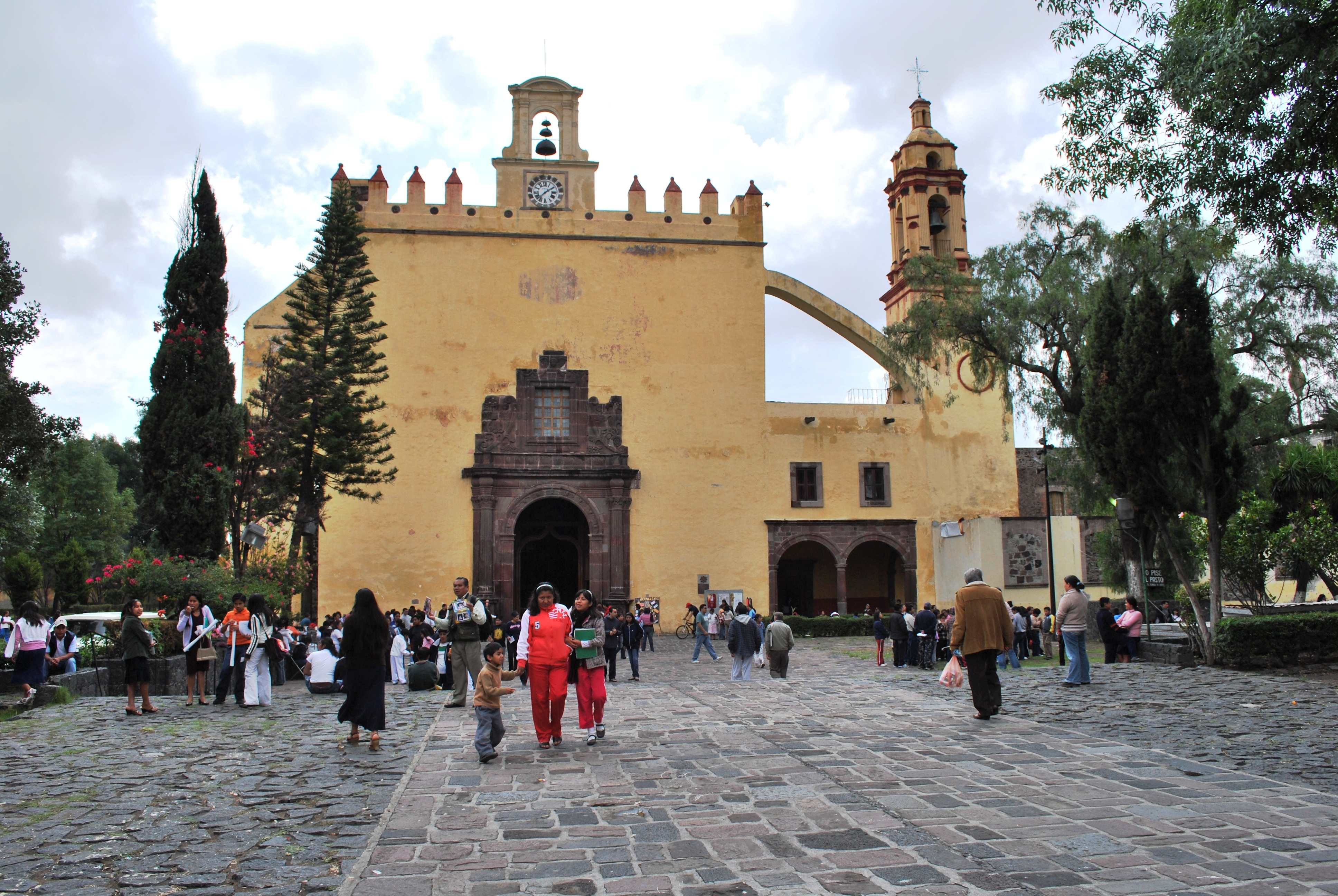 View of main facade of the San Bernadino de Siena Parish Church in Xochimilco, Mexico City